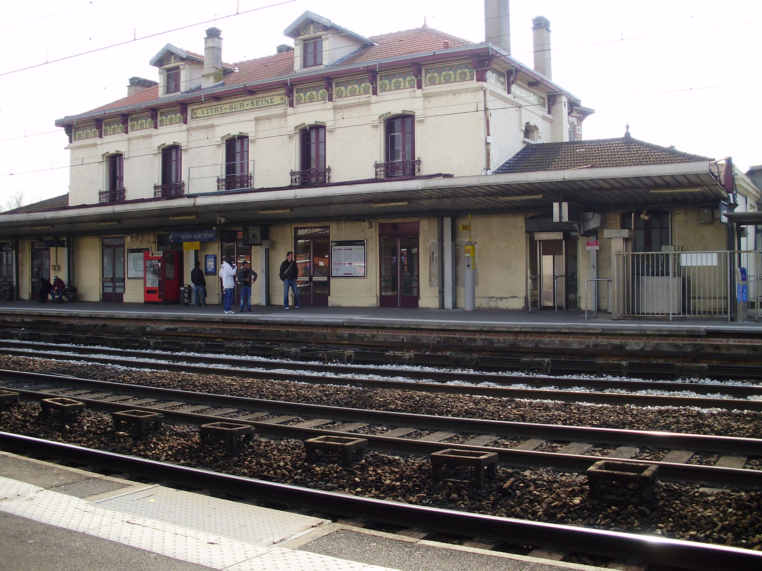 Vitry-sur-Seine station - platform, Val-de-Marne, France